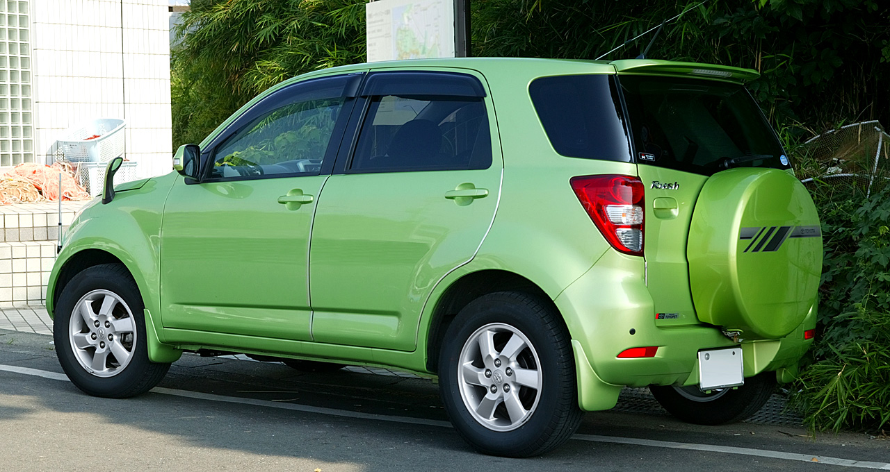 Toyota Rush X (J210E, 2006/1 - 2008/1)